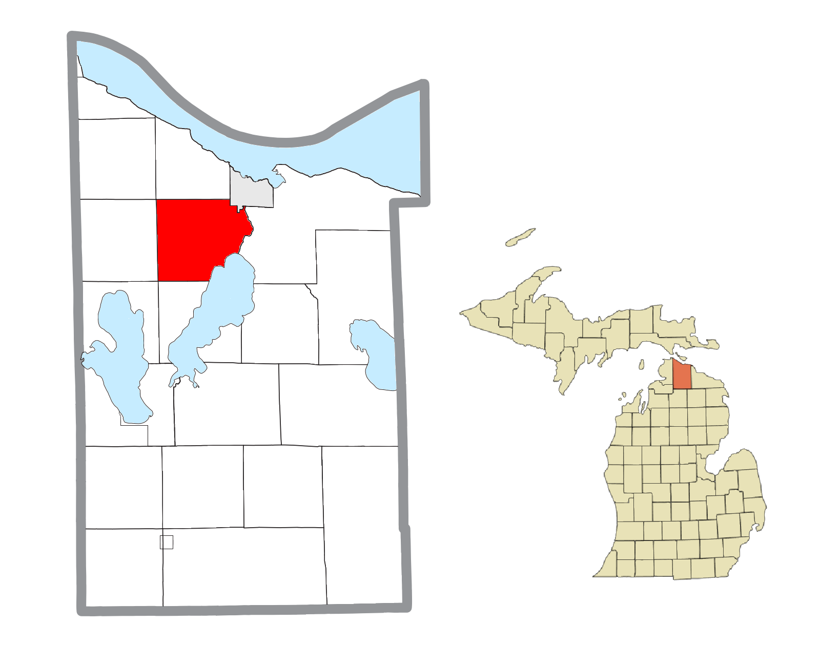 Iverness Township, MI